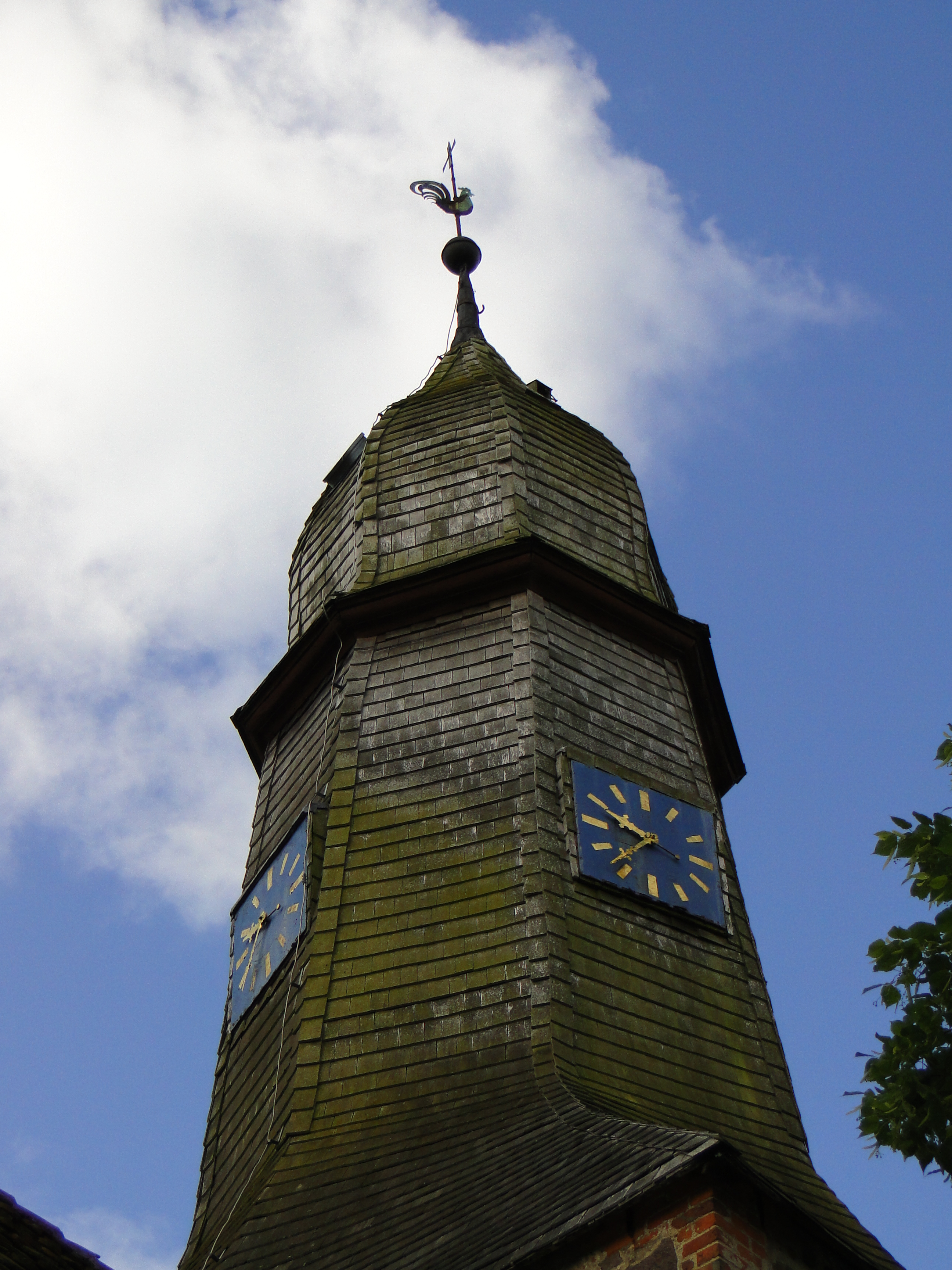 Church in Kladrum, district Ludwigslust-Parchim, Mecklenburg-Vorpommern, Germany